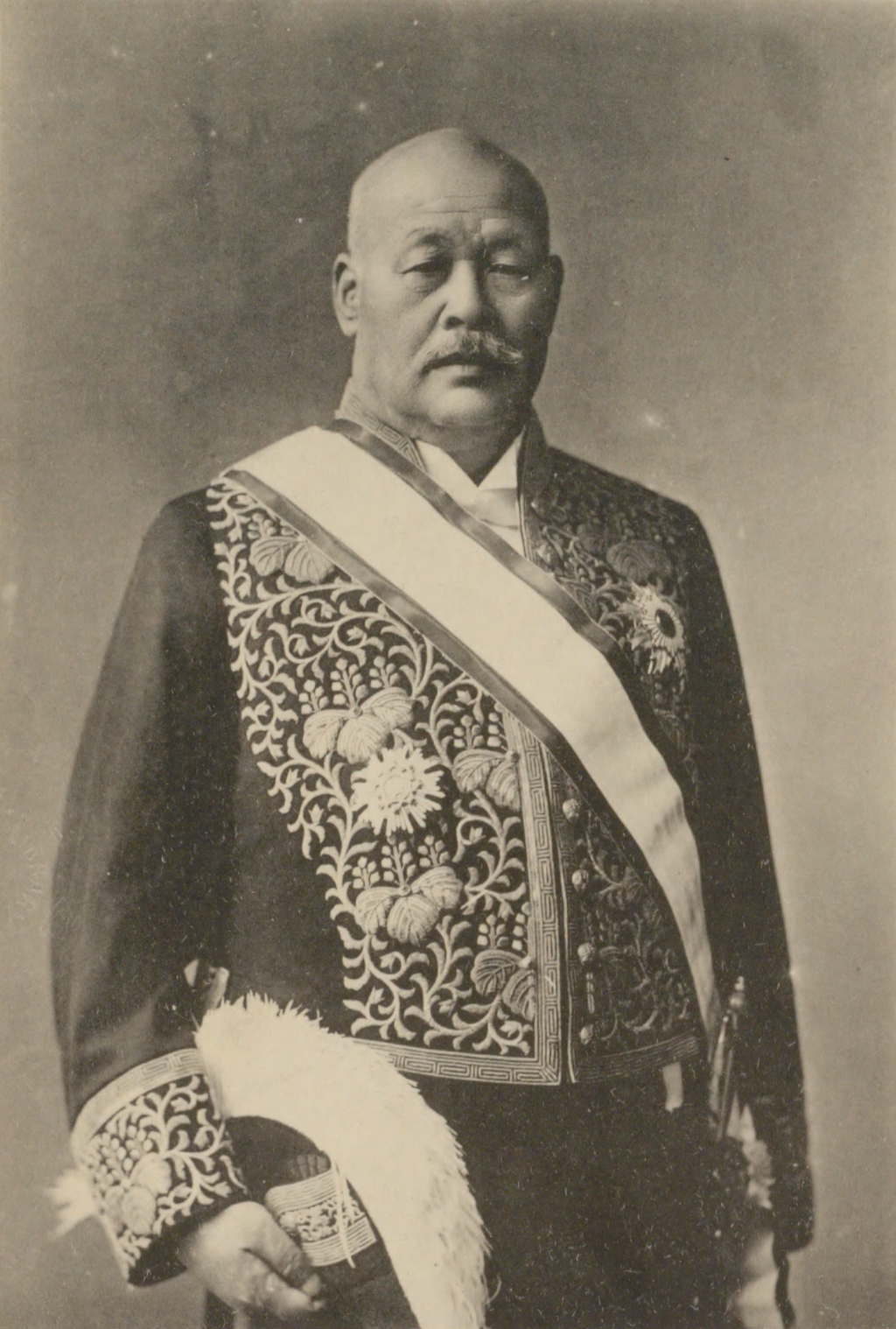 Portrait of Noda Utaro (野田卯太郎, 1853 – 1927)